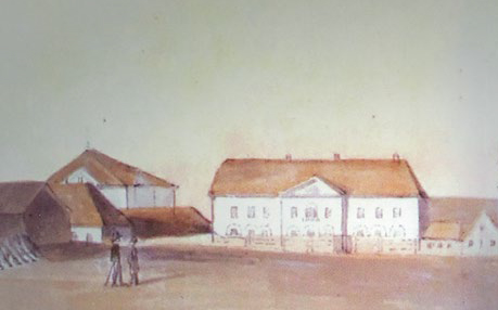 Theatre of Miensk